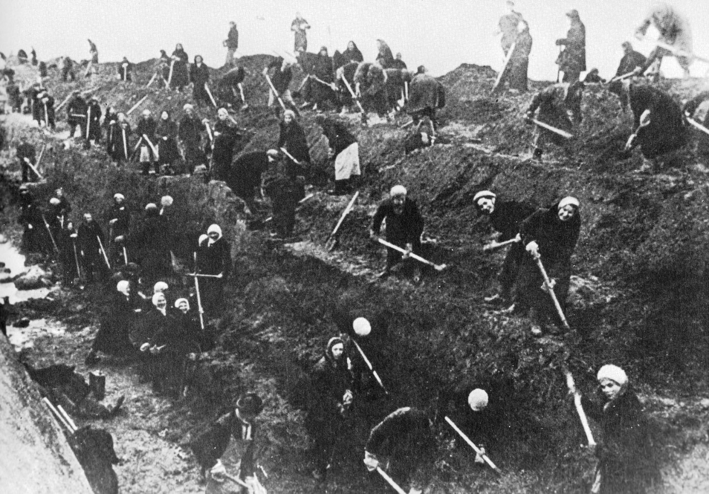 Armed with heavy shovels, a hastily assembled work force of Moscow women and elderly men gouge a huge tank trap out of the earth to halt German Panzers advancing on the Russian capital. In the feverish effort to save the city, more than 100,000 citizens labored from mid-October until late November digging ditches and building other obstructions. When completed, the ditches extended more than 100 miles. Source: Scanned from "Russia Besieged" (ISBN 705405273), page 165 Image originally from the United States Information Agency